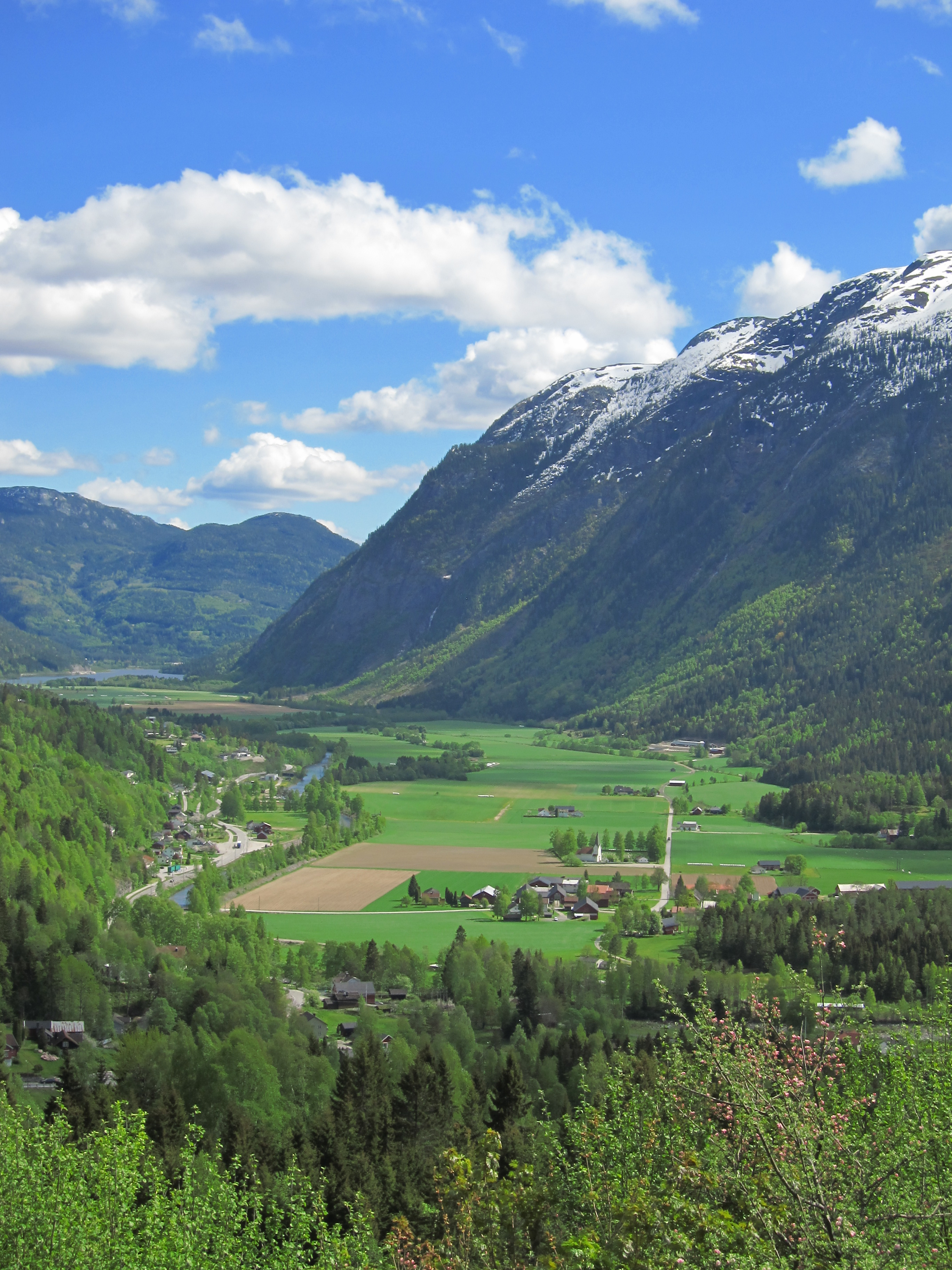 Flatdal valley in Telemark. Village and church centre. Road E134 left hand.